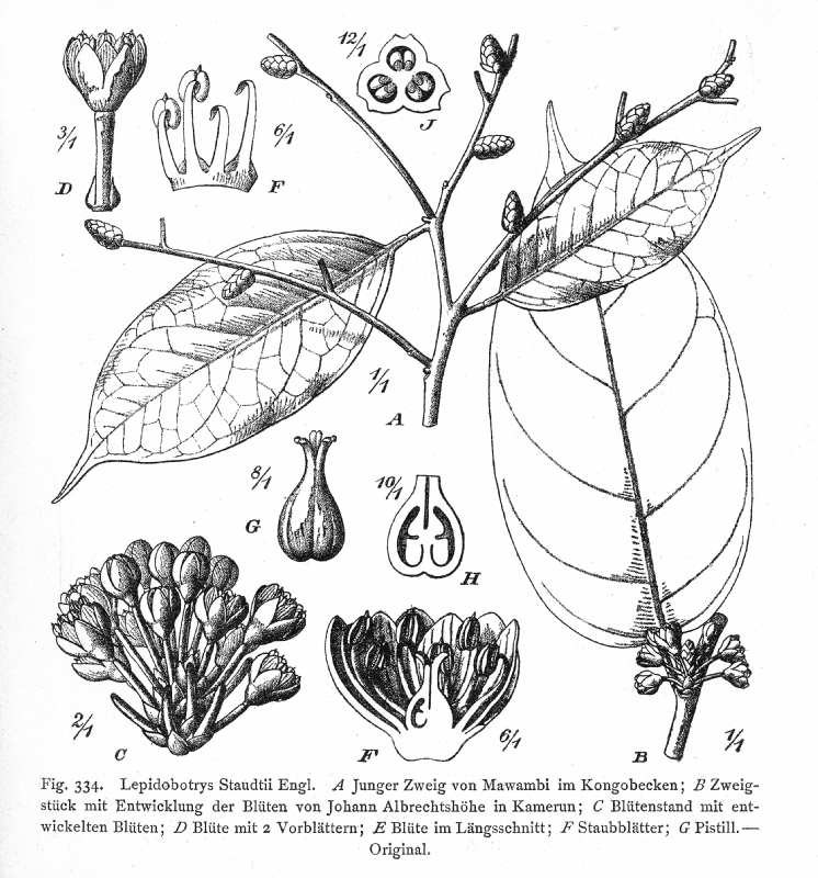 Lepidobotryaceae Lepidobotrys staudtii, from Vegetation der Erde (1915) v. 9 Bd. III, Heft 1. Fig. 334. by Adolf Engler (1844-1930)